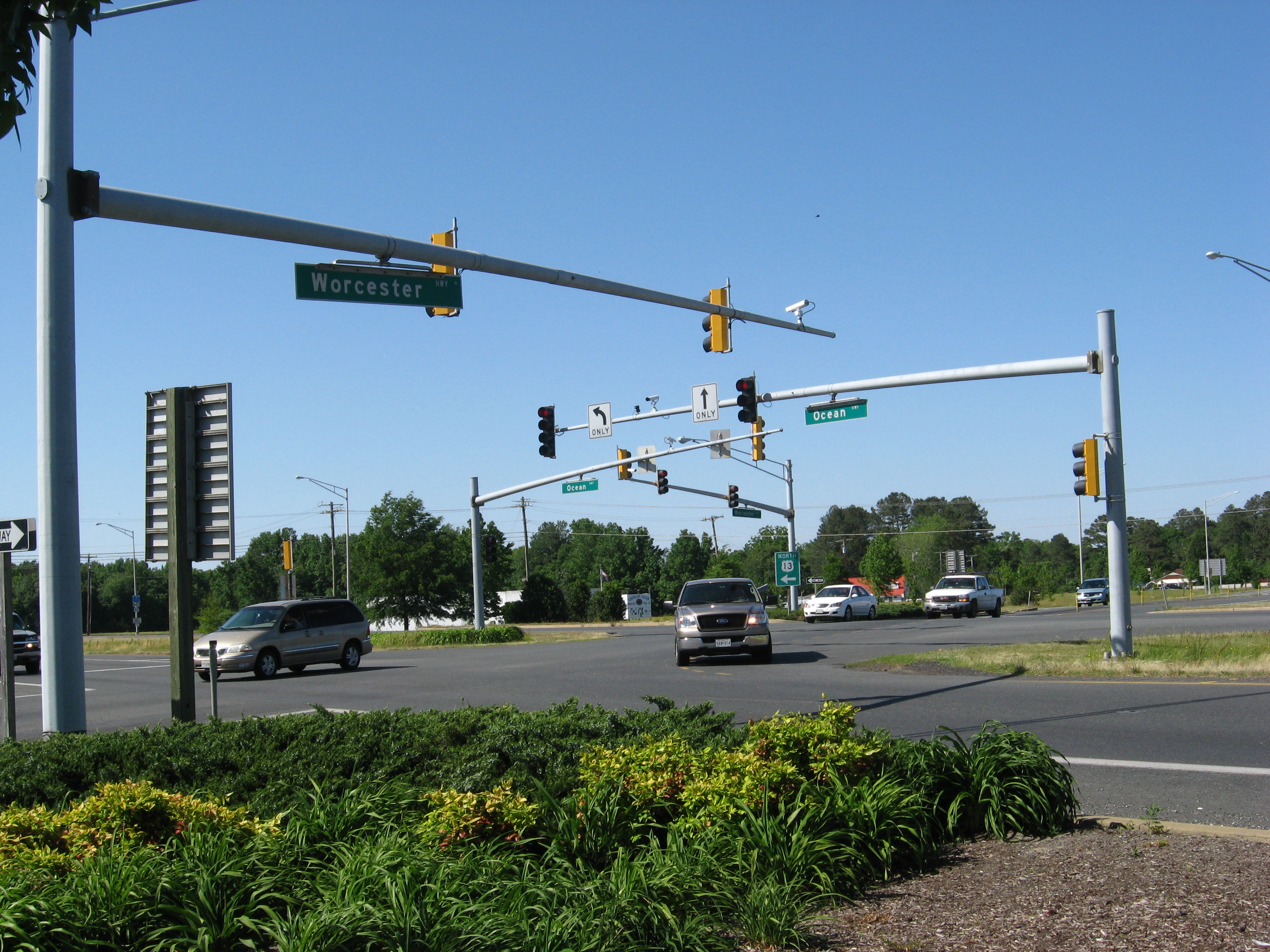 View from southwest corner of the intersection of U.S. Route 113 and U.S. Route 13 in Pocomoke City, MD.